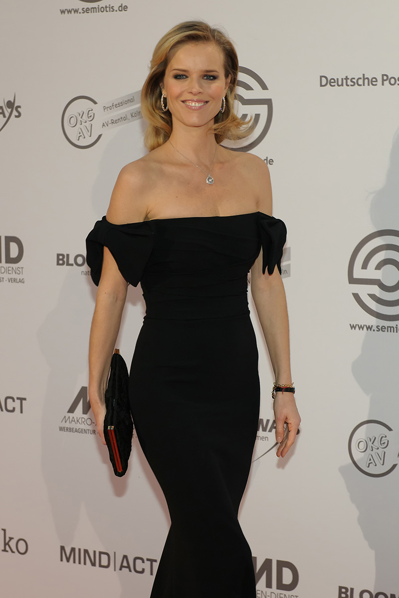 Eva Herzigova 2012